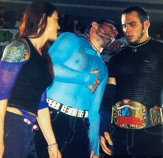 Matt Hardy as European Champion with Jeff and Lita